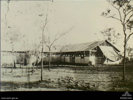 U.S. Army 135th Medical Regiment Evacuation Hospital kitchen. Birdum.